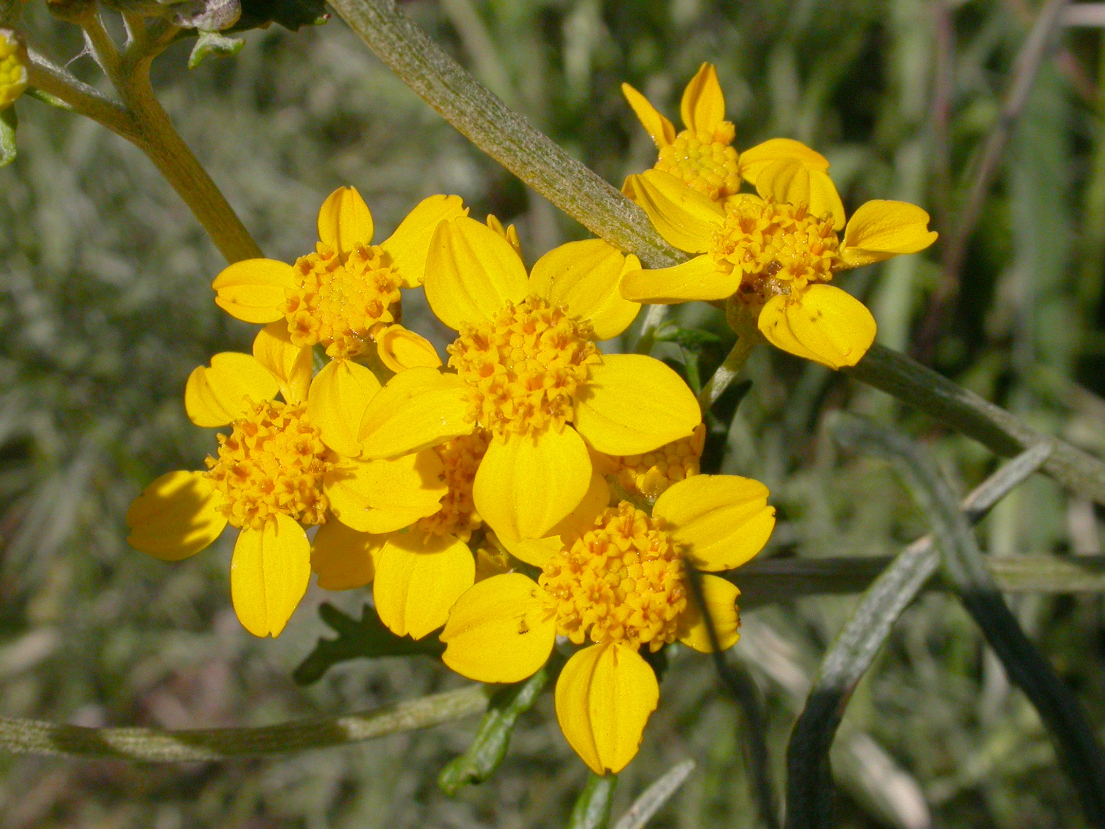 Eriophyllum confertiflorum. Plant of California chaparral and woodlands habitats. In the Voorhis Ecological Reserve at California State Polytechnic University, Pomona, California.